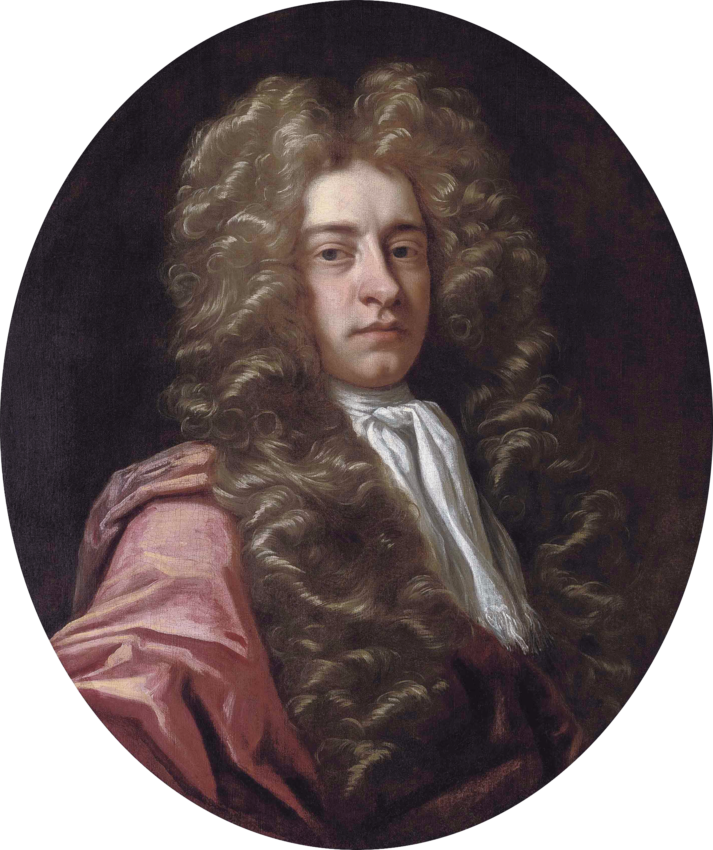 Edward Radclyffe 2nd Earl of Derwentwater oil on canvas 75.9 x 64.1 cm 1690s